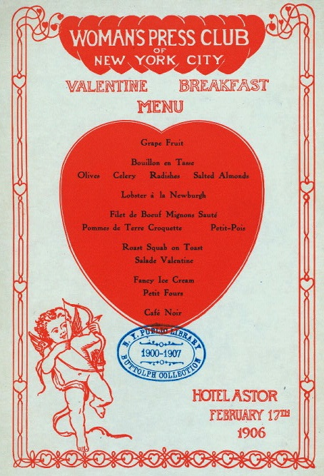 Valentines menu at Hotel Astor in Feb 1906 Woman's Press Club of New York City